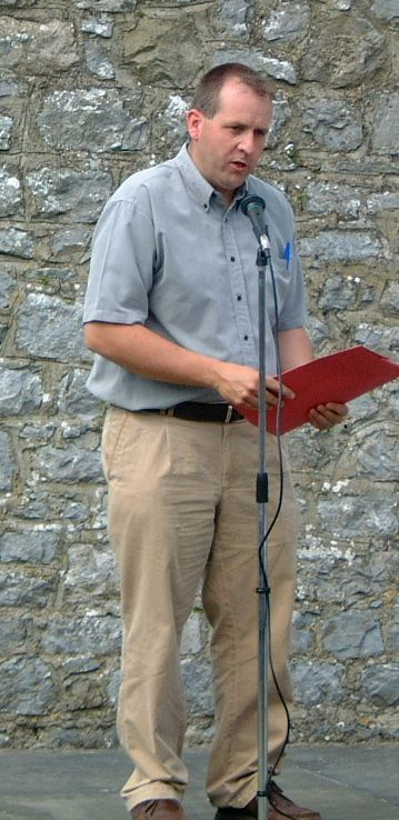 Republican Sinn Féin Vice President, Des Dalton, speaking at Bodenstown, Co Kildare. Taken by myself in 2004